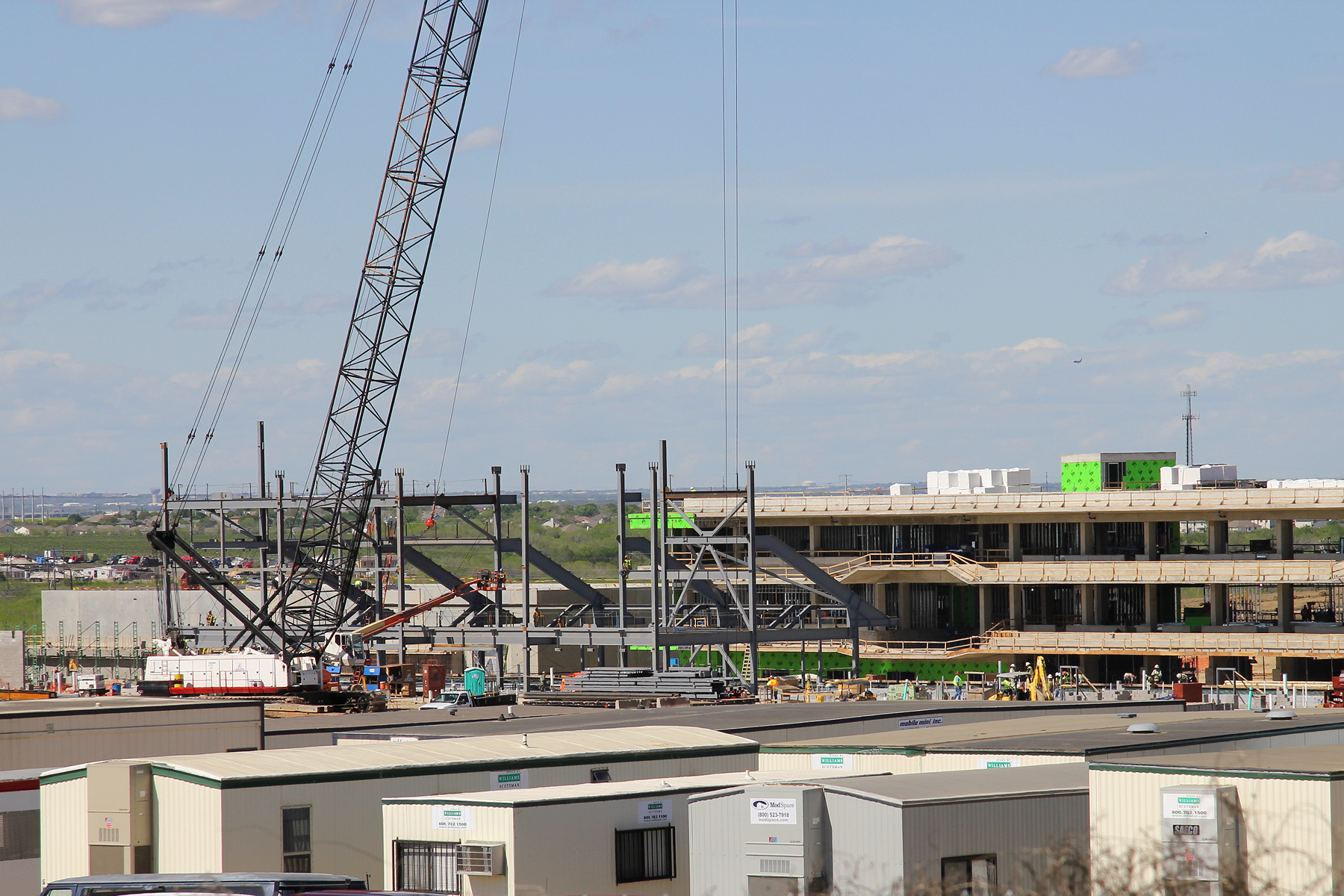 Main grandstand and pit building under construction at Circuit of the Americas.